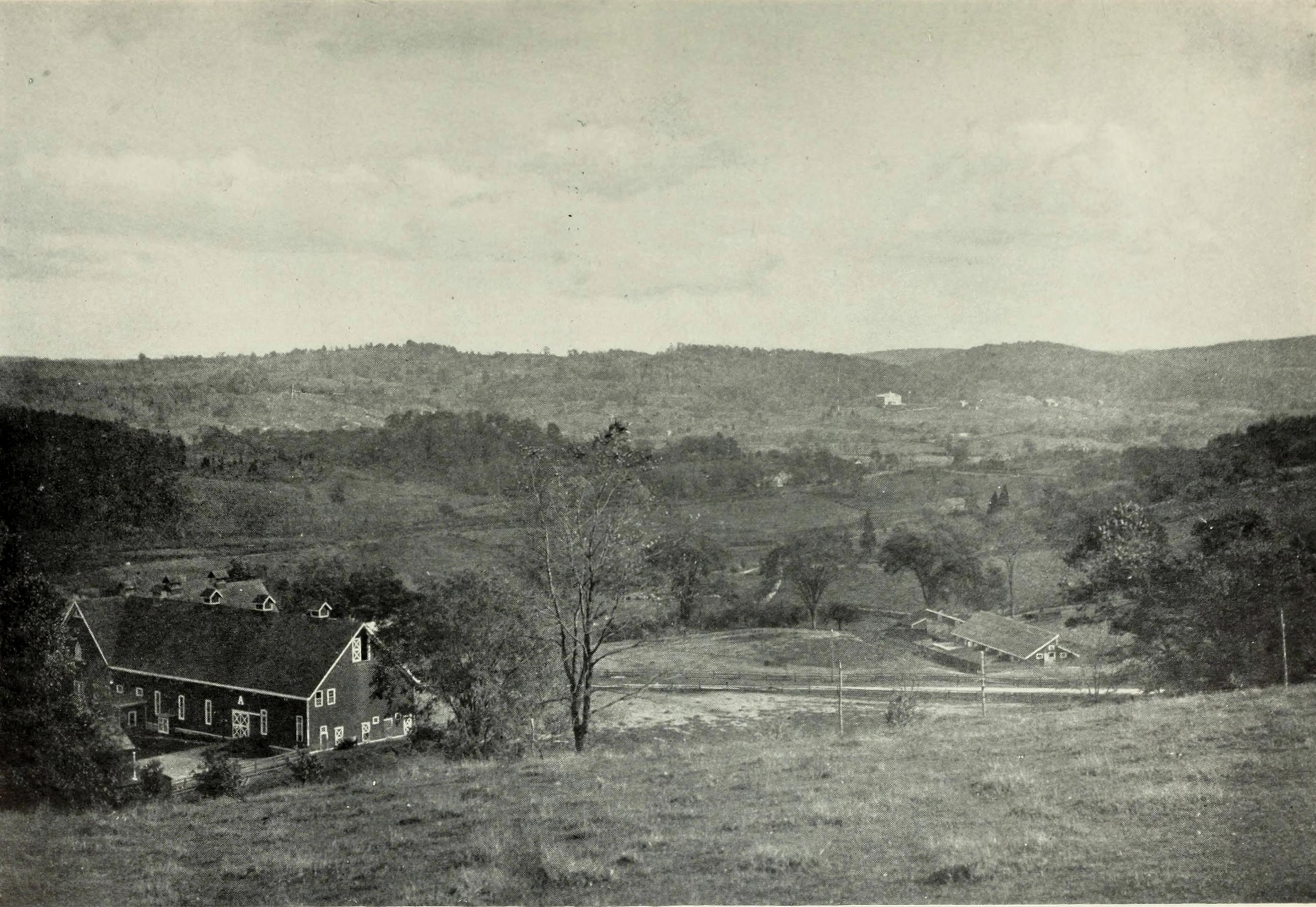 A photograph of Briarcliff Farms, by Henry Troth, published in the below journal, in January 1902.